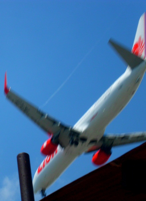 A Lion Air on Final Approach to Sultan Aji Muhamad Sulaiman Airport